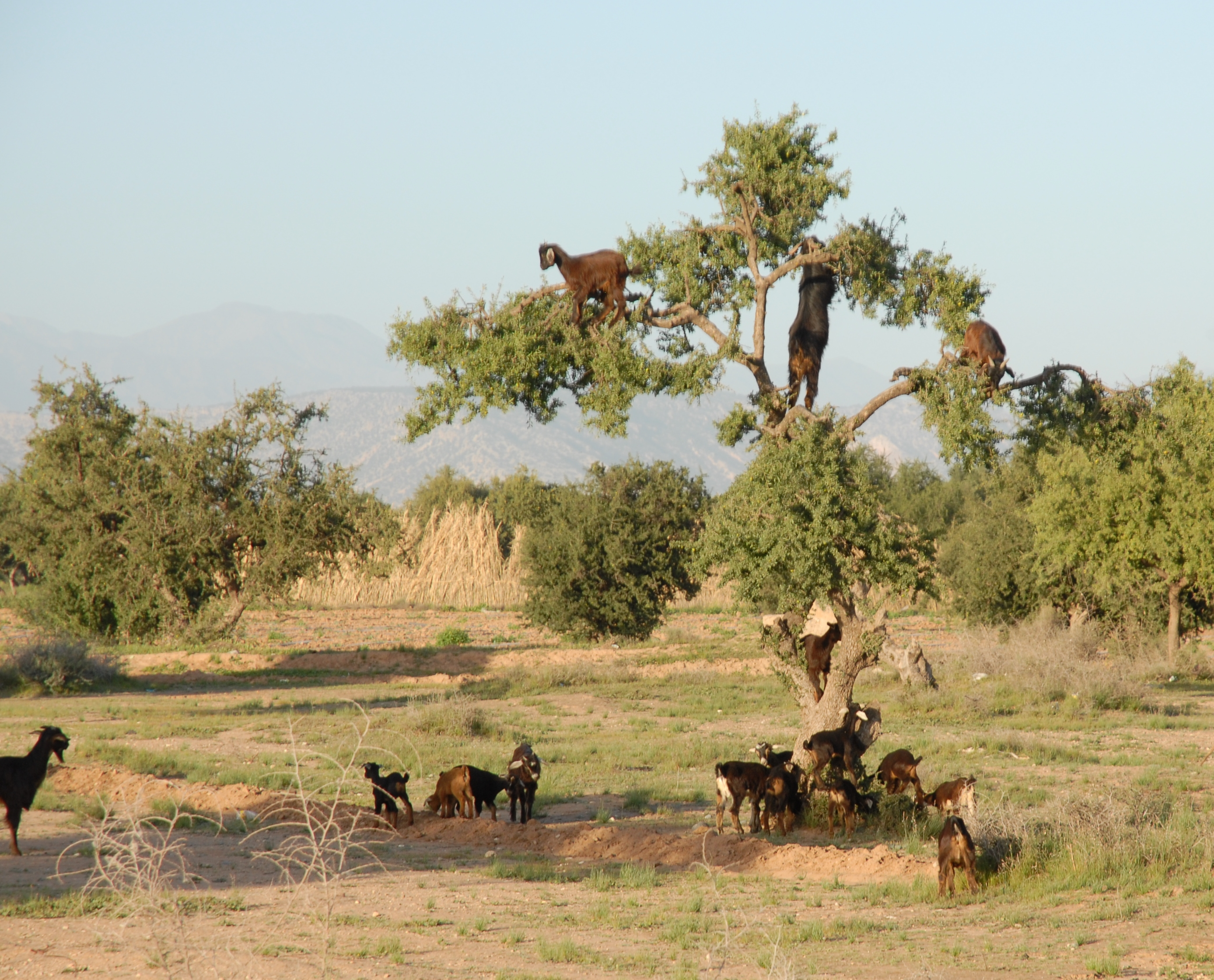 Goats on an Argan tree near Taroudannt (Morocco)